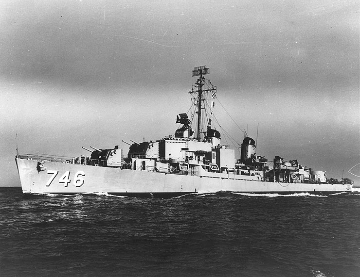 Photo #: NH 98993 - USS Taussig (DD-746) - Underway during the later 1940s or early 1950s.